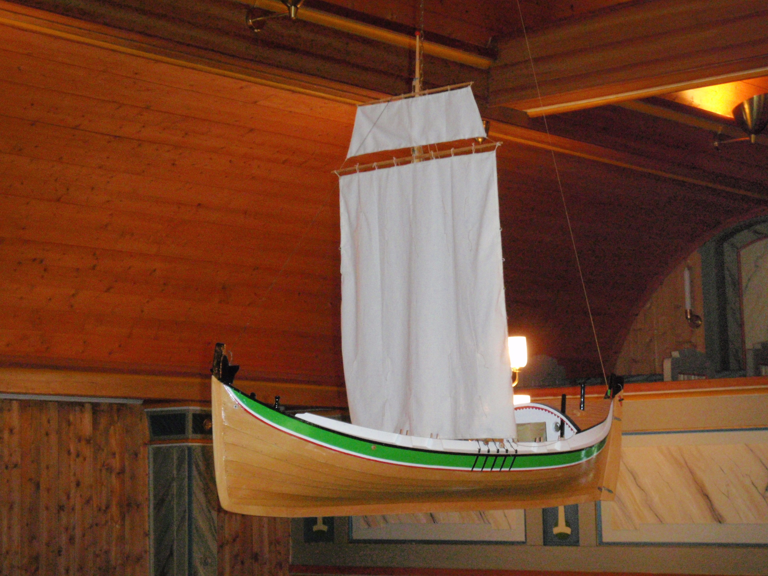 Model of traditional boat in the church og Elsfjord, Vefsn